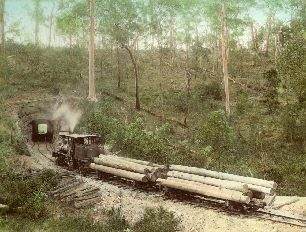 View of the locomotive approaching the tunnel on the Canungra Sawmill tramway This photograph is part of an album entitled Canungra Illustrated.